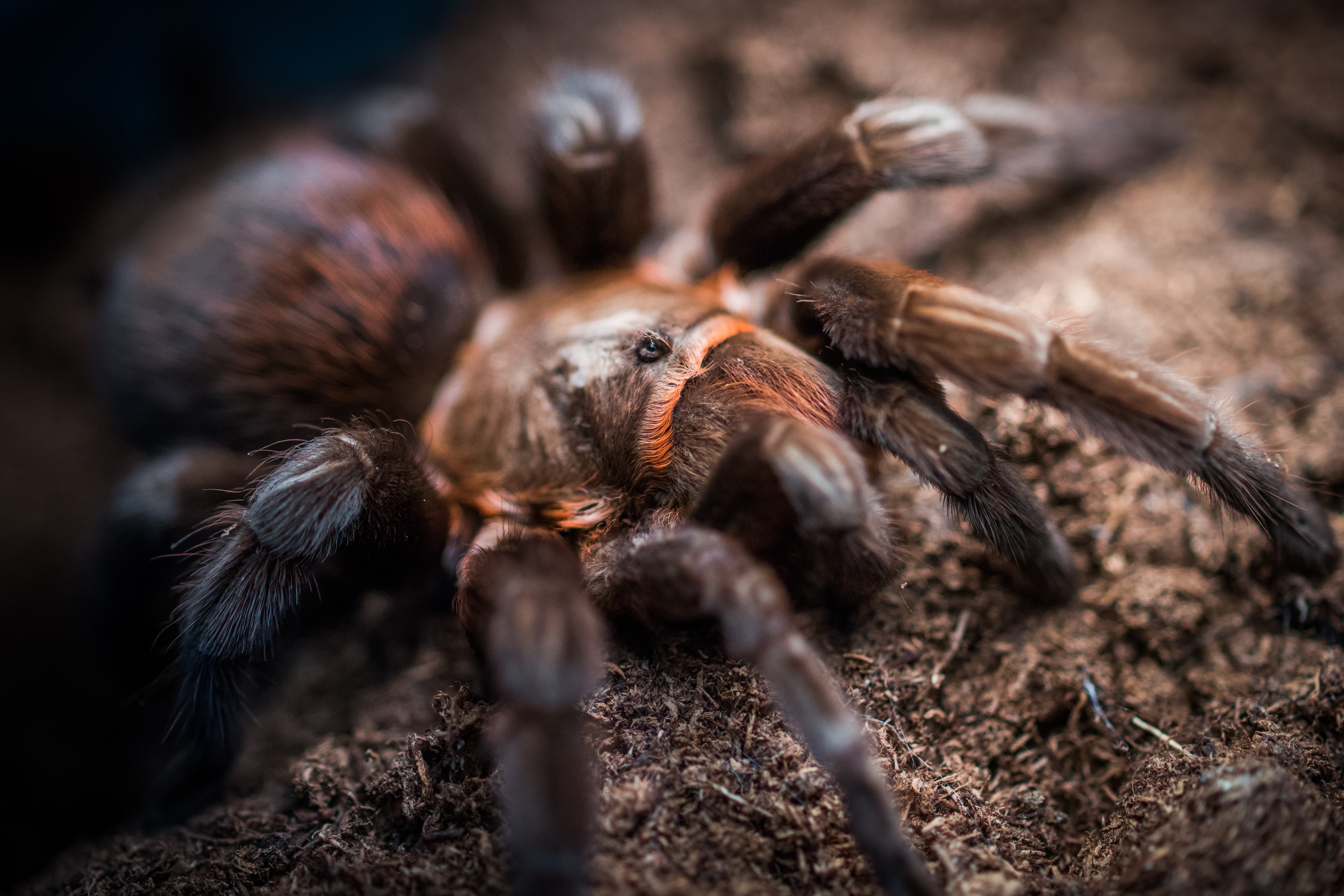 Photo of a Brachypelma kahlenbergi tarantula